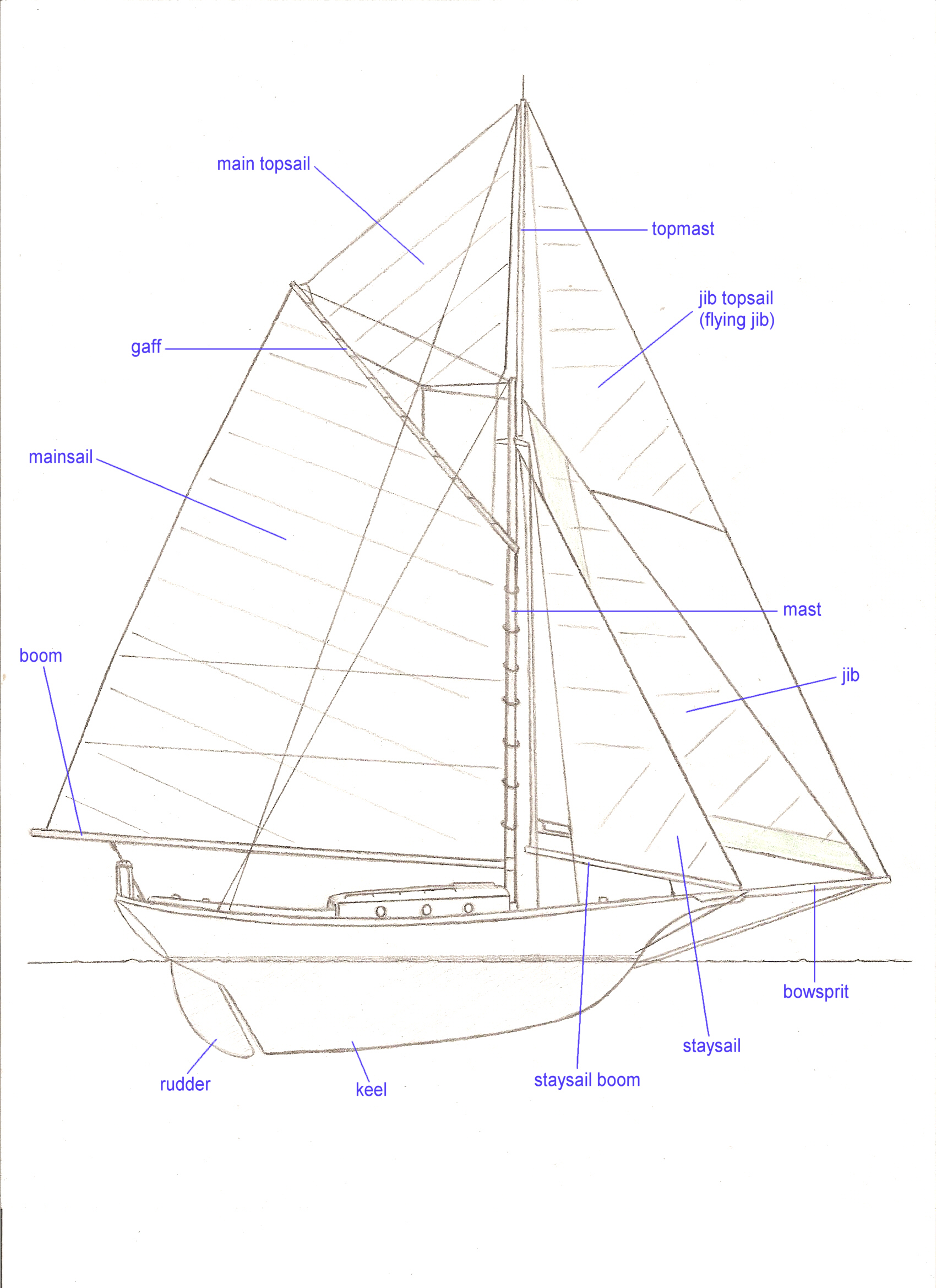 A hand-drawn diagram of a Friendship sloop with the sails and other significant components labeled.